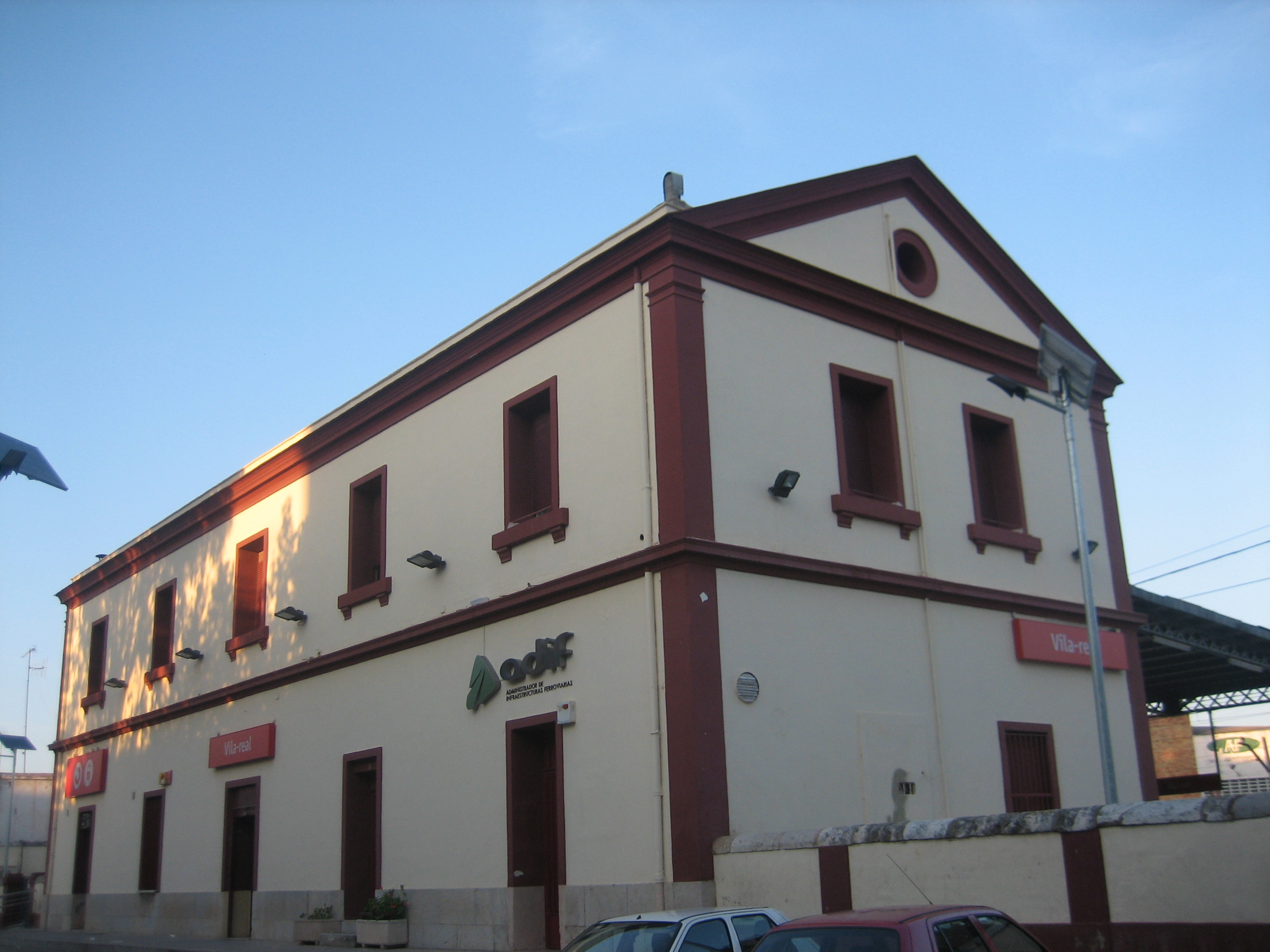 Villarreal railway station